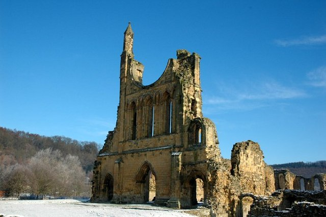 West Frontage of Byland Abbey